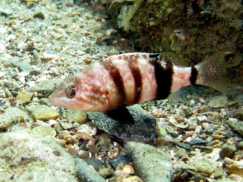 serranus hepatus Photographen in North Adriatic sea (Trieste, Italy)